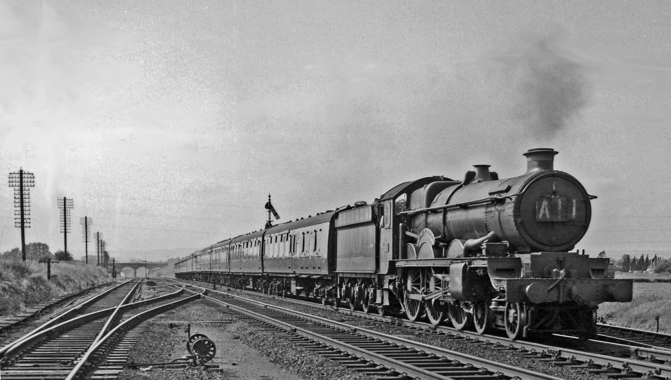 Up South Wales - Paddington express surmounting at Pilning High Level the climb out of the Severn Tunnel. View westward, down towards the Tunnel and South Wales: ex-GWR Main Line. The 10.20 Pembroke Dock/11.05 Milford Haven, non-stop from Newport, is due at Paddington at 17.50. Collett-design 'Castle' 4-6-0 No. 7001 'Sir James Milne' (the last Chairman of the GWR) was built 5/46 as - a third - 'Denbigh Castle', renamed 2/48 and withdrawn 9/63: it has just surmounted - clearly visible 3½ miles of 1-in-100 from the middle of the Tunnel and after a short pause has another 3 miles ahead of the same [- and I recorded the magnificent noise!]